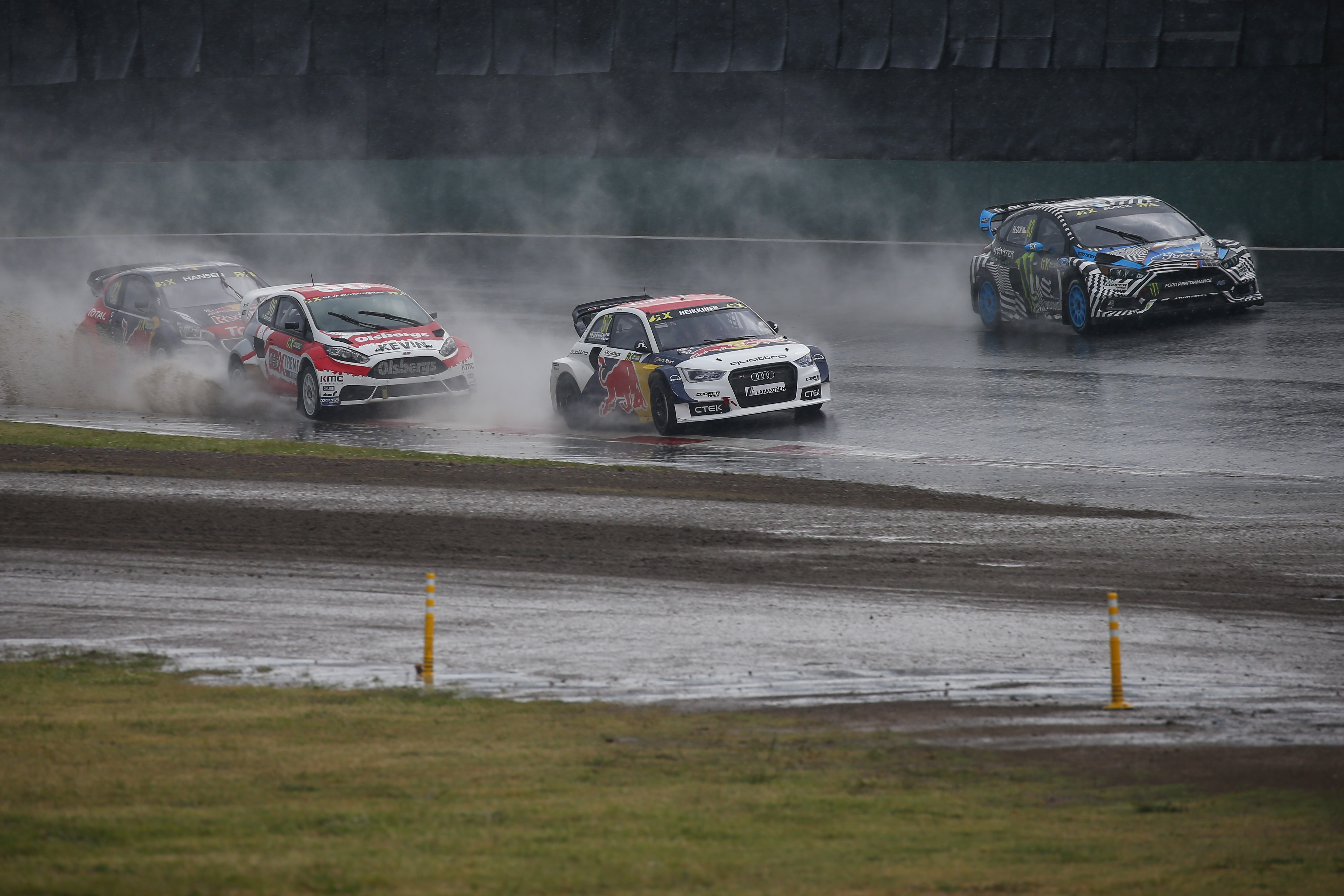 2016 FIA World RX Rallycross Championship / Round 12 / Rosario, Argentina / November 25 - 28, 2016 // Worldwide Copyright:Tony Welam/EKS/McKlein